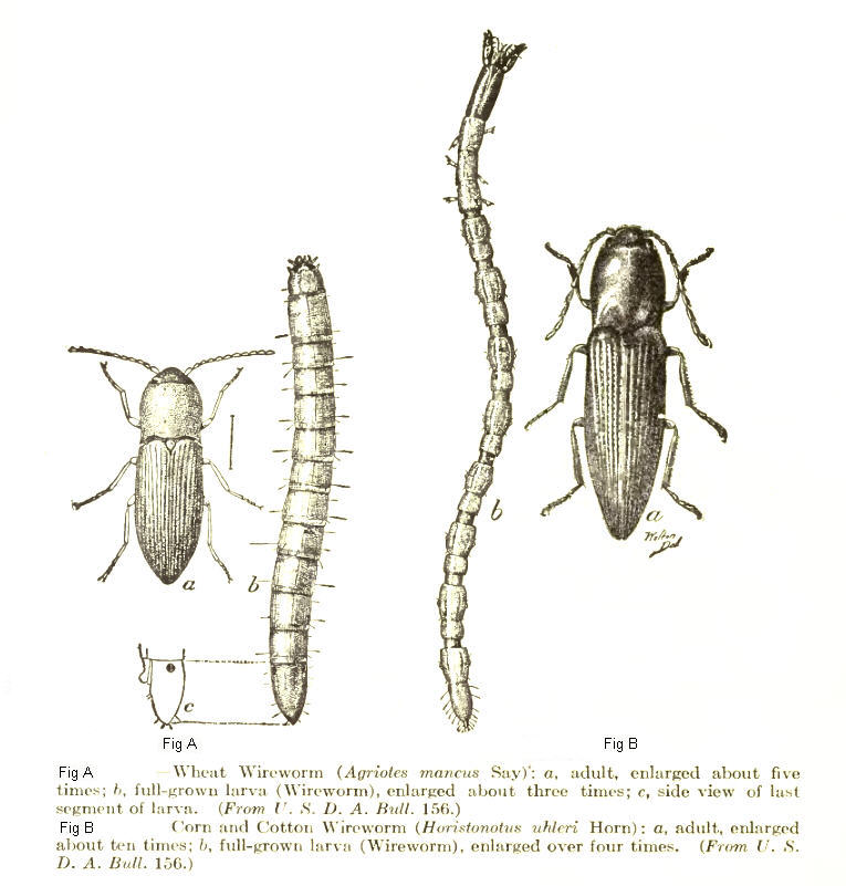 Elateridae adults and larvae Left: Wheat Wireworm (Agriotes mancus) Right: Sand Wireworm (Horistonotus uhlerii)